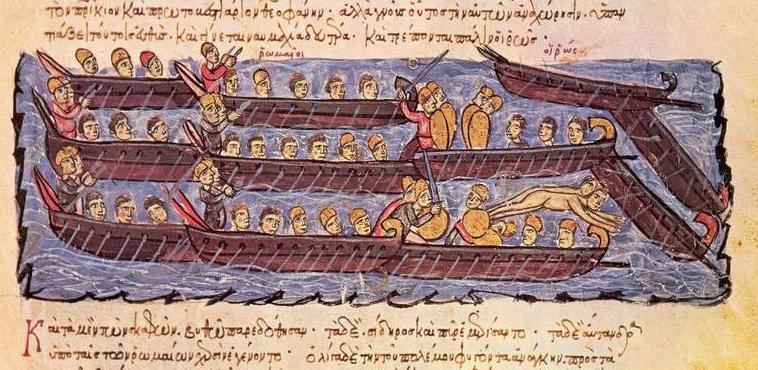 The repulsion of the Rus' attack on Constantinople in 941 by the Byzantine fleet